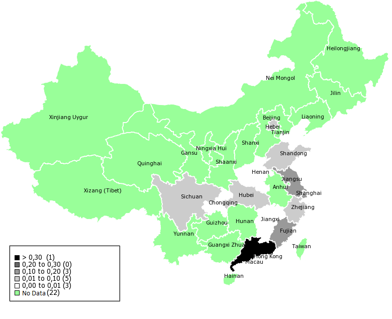 This is a map showing that the integration of Taiwan Approved Investments in Mainland China by Cases Accumulation from 1991 to 2014.